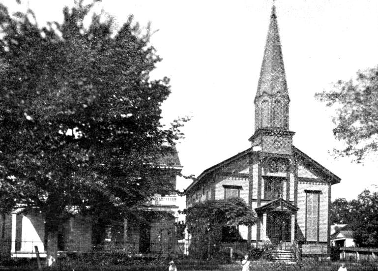 Pharr Chapel United Methodist Church